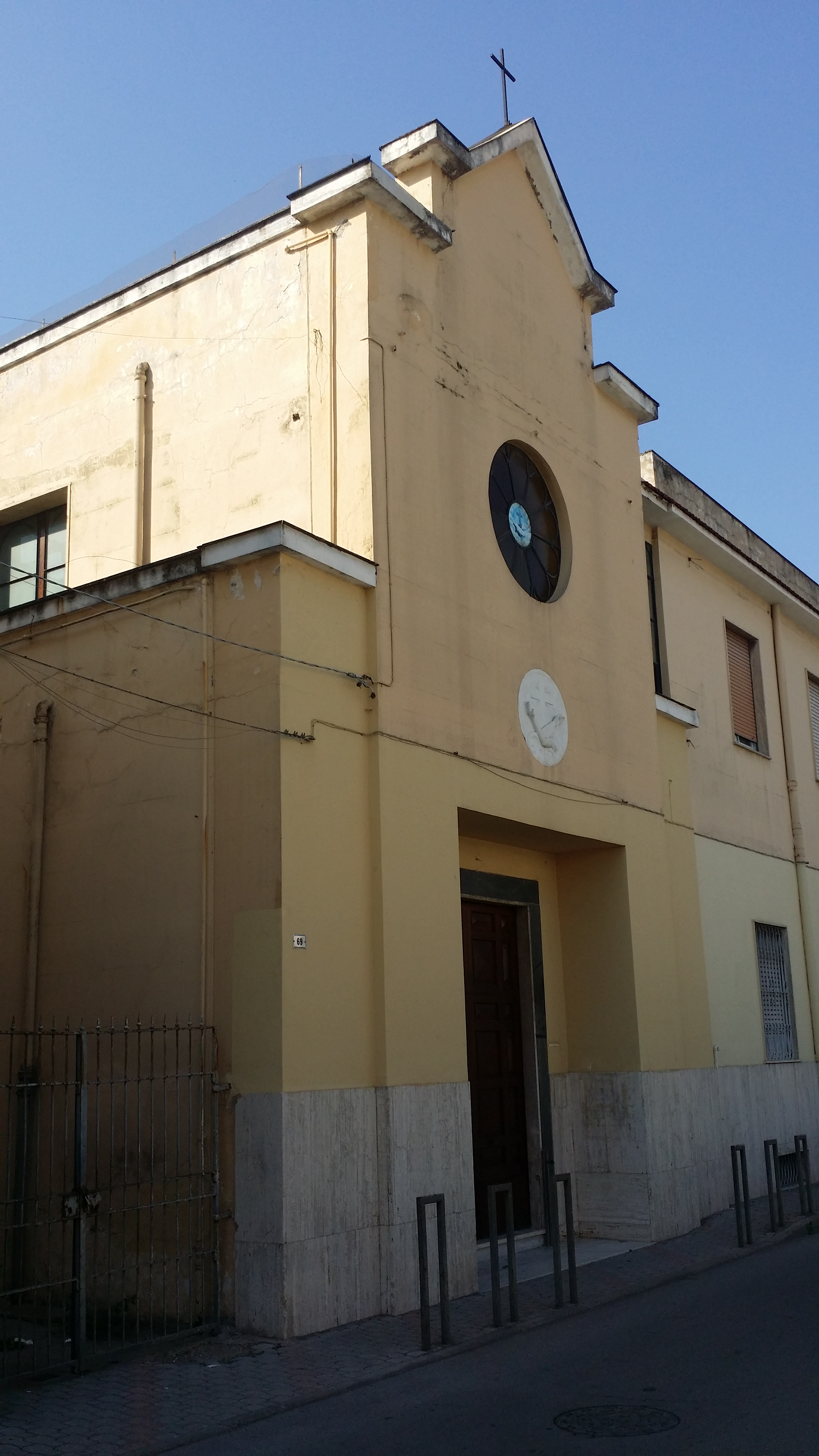 facade of the church of Saint Francis of Assisi-Angri (Sa)